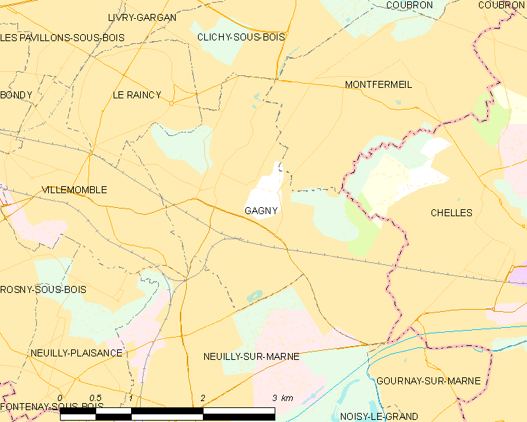 Map of French municipality Gagny